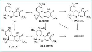 Metabolism of THC